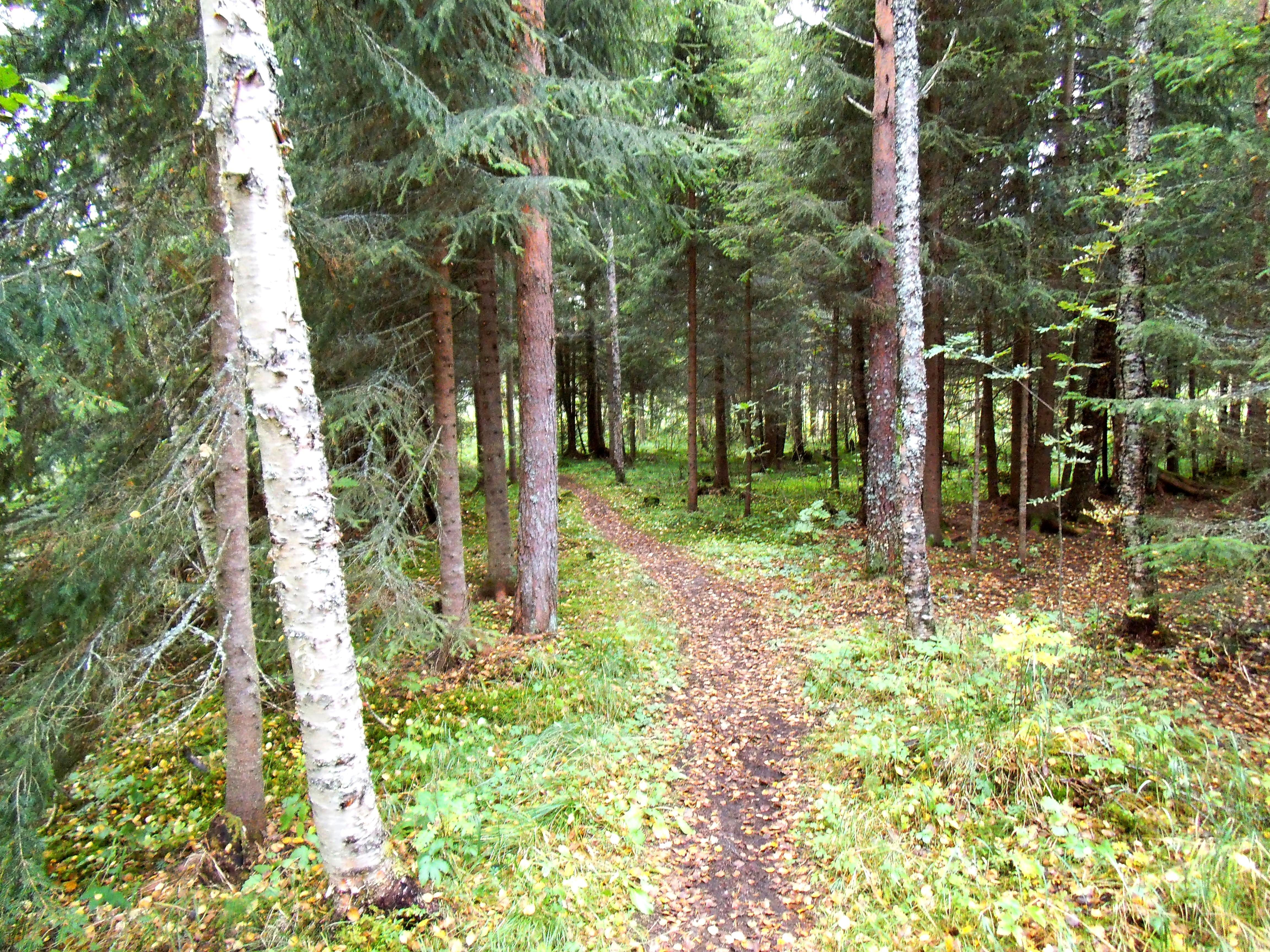 A trail in a forest in Norway. September